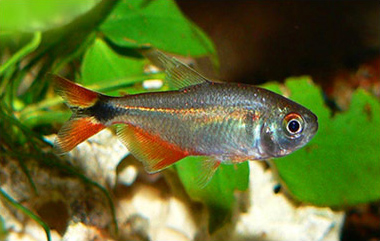 A Buenos Aires tetra (Hyphessobrycon anisitsi).